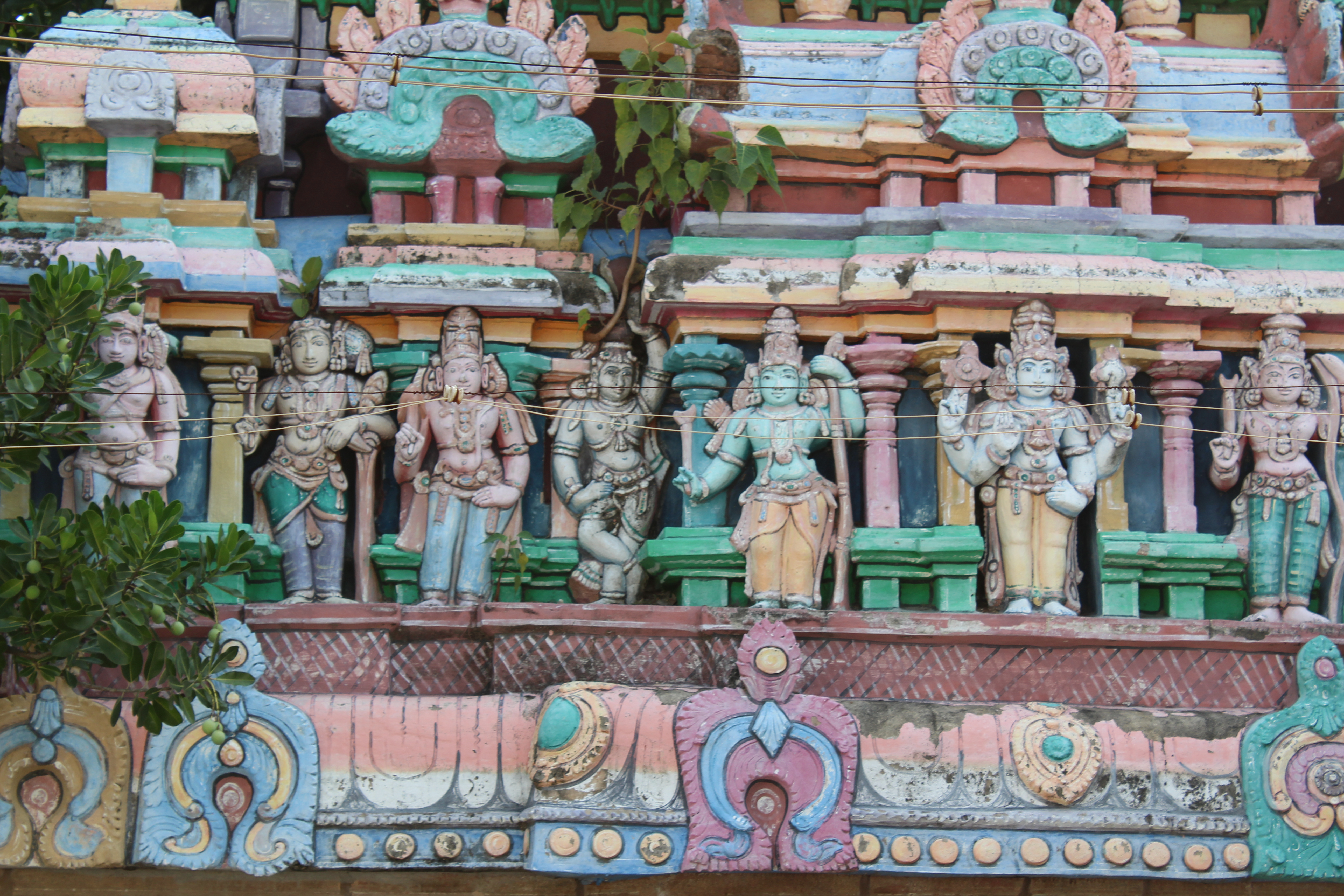 Pullabhoothangudi temple